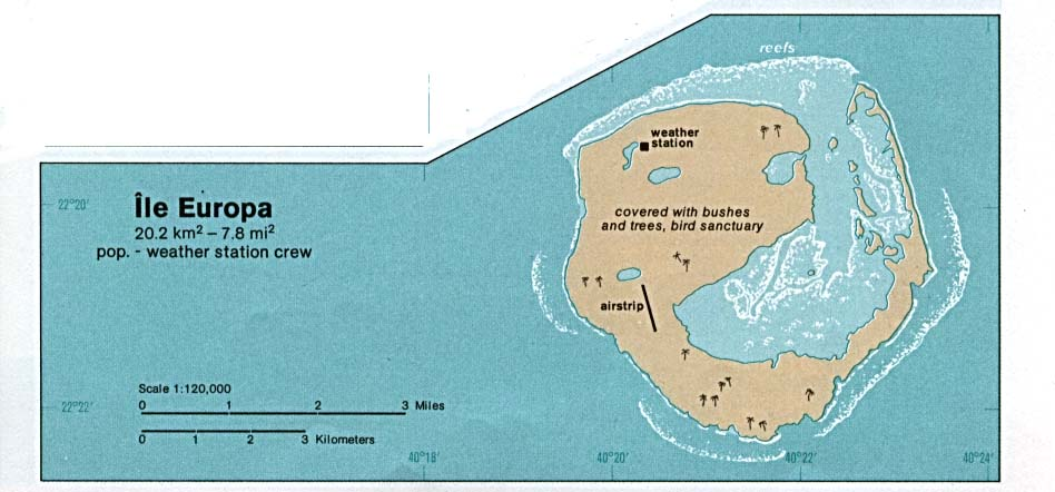 Map of Europa Island in the Indian Ocean